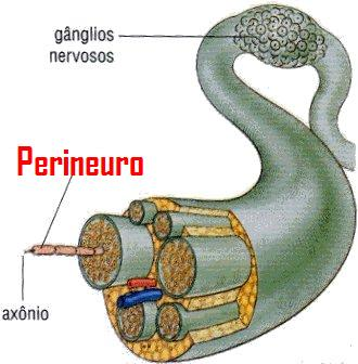 Perineury